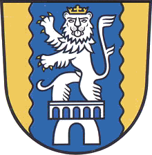 Coat of arms of Tonna